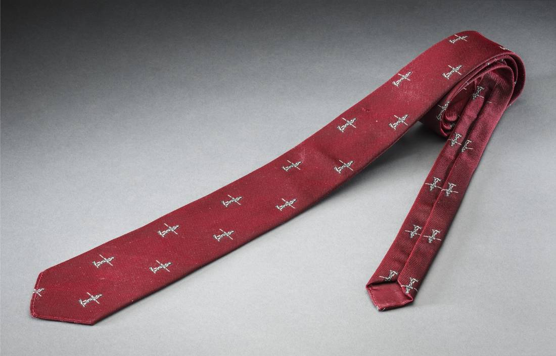 Maroon polyester necktie. It has a repeated motif of an Aboriginal man carrying a spear and a shield in silver and black bevo weave. 'Austico / TERYLENE / ICI' is on the label attached to the back of the tie.